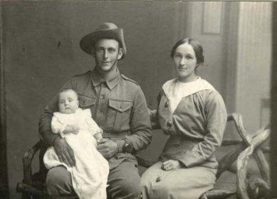 Photograph of Lewis McGee with his wife, Eileen, and baby daughter, Nada. McGee, as a sergeant serving with the Australian Imperial Force, was to be awarded the Victoria Cross during the Battle of Broodseinde on 4 October 1917. He was killed in action eight days later.